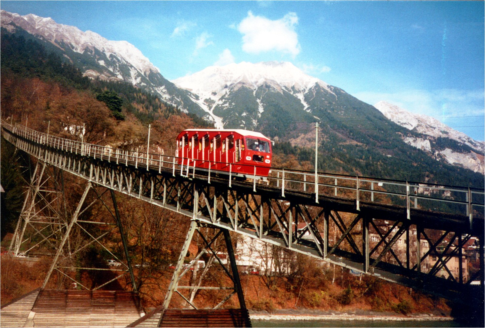 car of old Hungerburgbahn funicular (1906-2005) on the bridge over the river Inn.